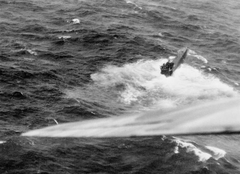 Royal Air Force 1939-1945- Coastal Command Three U-boats were sunk by Coastal Command aircraft on 8 October 1943 around convoy SC143. One of them was U-643, depth charged by two Liberators from No 86 Squadron. This photograph, showing the U-boat stopped and down by the bow, was taken from the third Liberator to arrive on the scene. The stricken submarine eventually blew up and sank, but 18 of her crew survived to be rescued by HMS ORWELL.